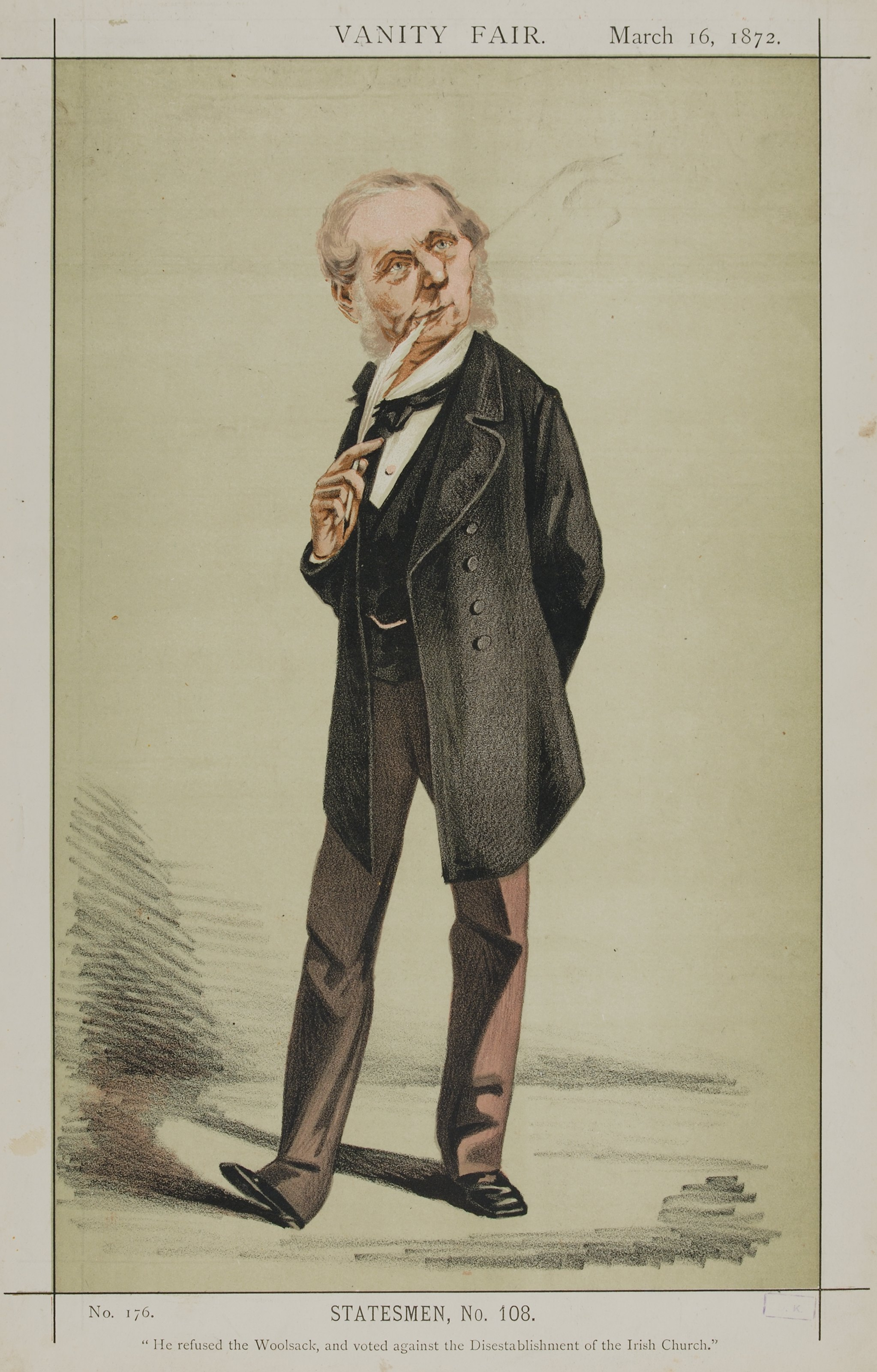 Statesmen No.108: Caricature of Sir Roundell Palmer. Caption reads: "He refused the Woolsack, and voted against the Disestablishment of the Irish Church"